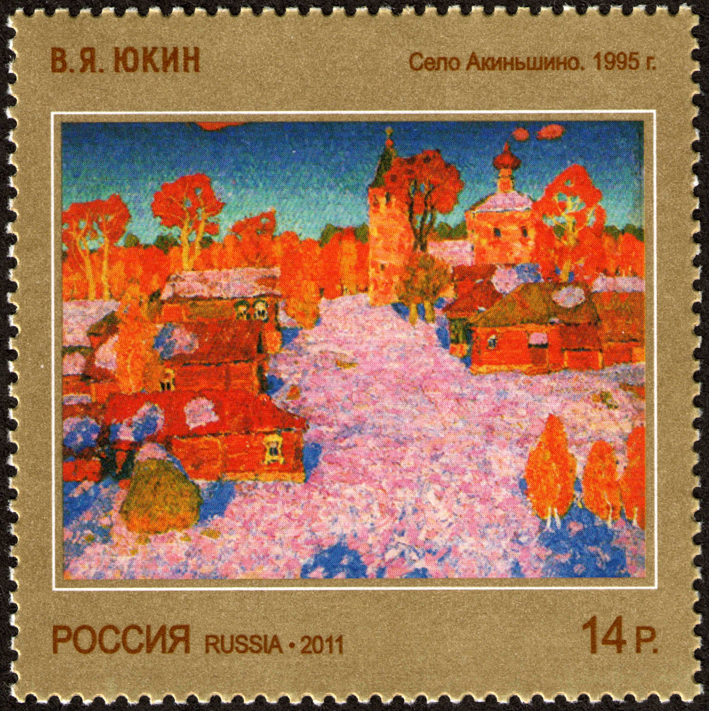 The contemporary art of Russia (the ongoing series, issue I).Akin’shino Village by Vladimir Yukin. 1995.Vladimir Yakovlevich Yukin (1920–2000) was a Soviet and Russian artist, one of the first-rate Soviet landscape painters of the second half of 20th century; a Meritorious Artist of RSFSR, a People's Artist of the Russian Federation.The stamp of Russia, 14.00 Rubles, 12 September 2011, PTC Marka Catalogue No 1517, Michel No 1749. Coated paper, varnish coating, bronze paste. Offset printing. Perforation: comb 12. Size of the stamp: 50×50 mm. Print run: 270,000.